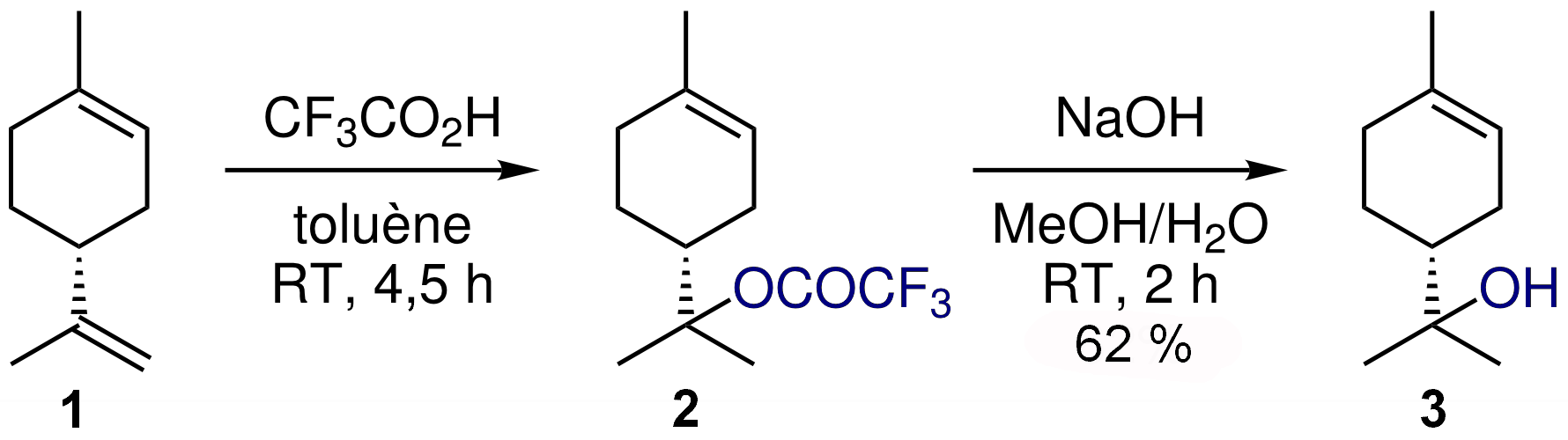 Preparation of (R)-(+)-α-terpineol by addition of trifluoroacetic acid to d-limonene.